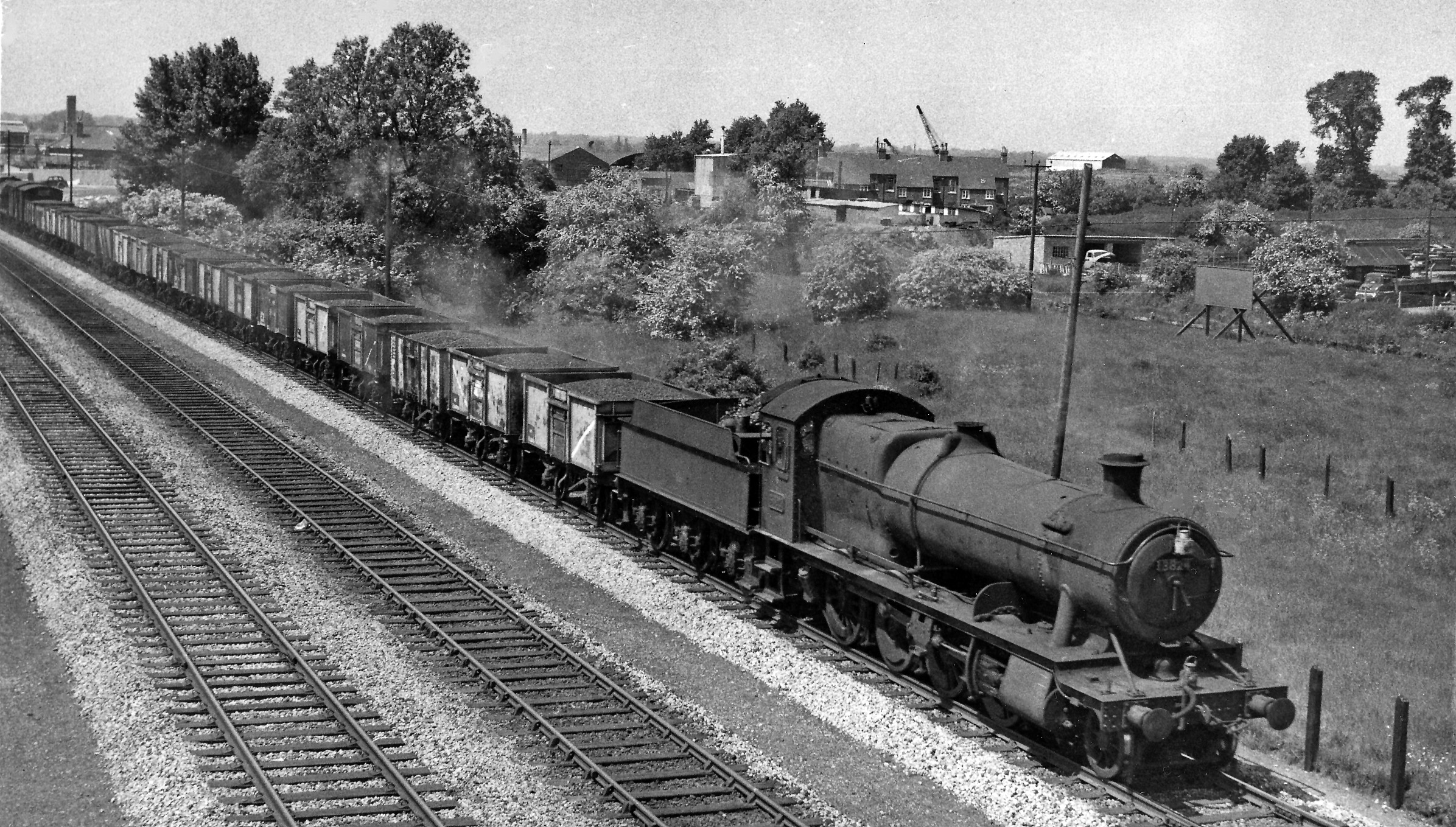 Up freight west of Hayes & Harlington. View westward near Dawley Box, towards West Drayton, Reading and the West; ex-GW Paddington - Reading etc. main line. This is close to where the Heathrow Express line (opened 1/98, fully 23/6/98) now branches off to the Airport from the main line. The Class H freight is headed by '2883' 2-8-0 No. 3824 (built 9/40).